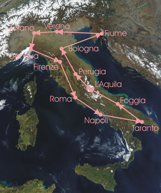 Map of Italy highlighting the stages of 1924 Giro d'Italia